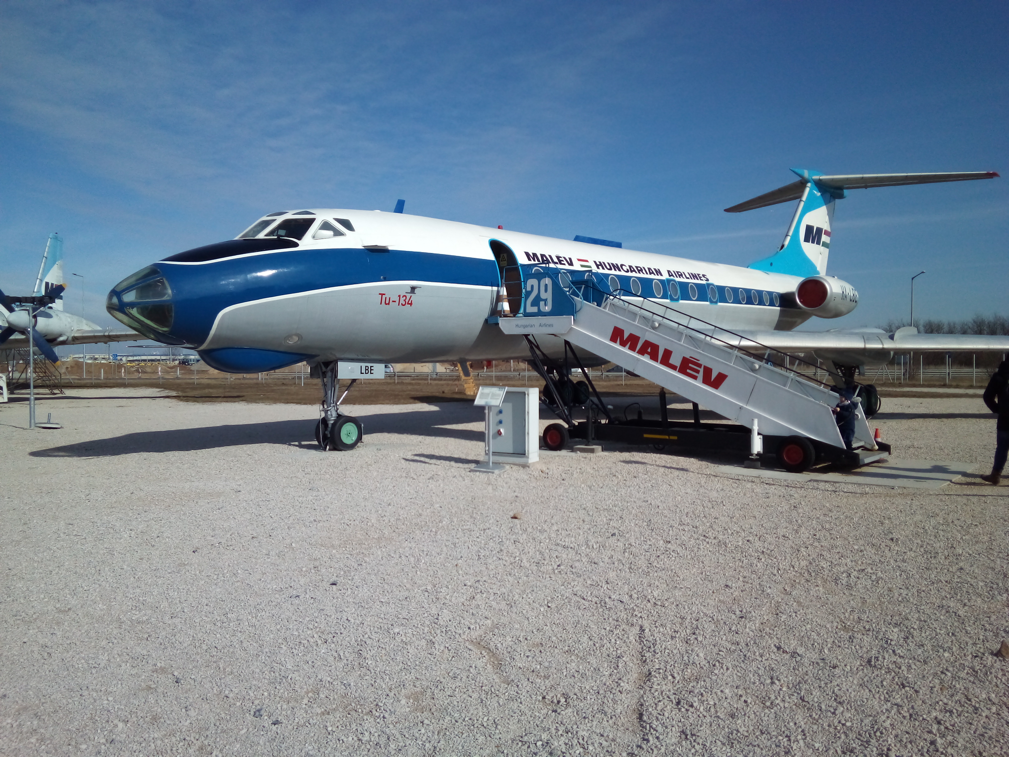 Tu-134